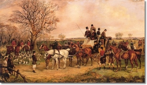 The Meet by Samuel Alken